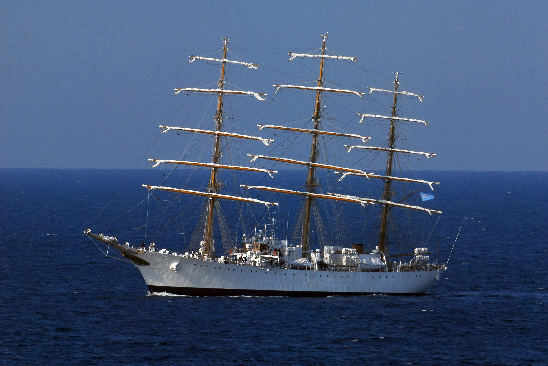 ATLANTIC OCEAN (May 21, 2007) - While in transit to Fleet Week New York City 2007, sail training ship ARA Libertad (Q-2) sails past amphibious assault ship USS Wasp (LHD 1). Libertad serves as a learning platform for graduating naval cadets entering the Argentine sea service.